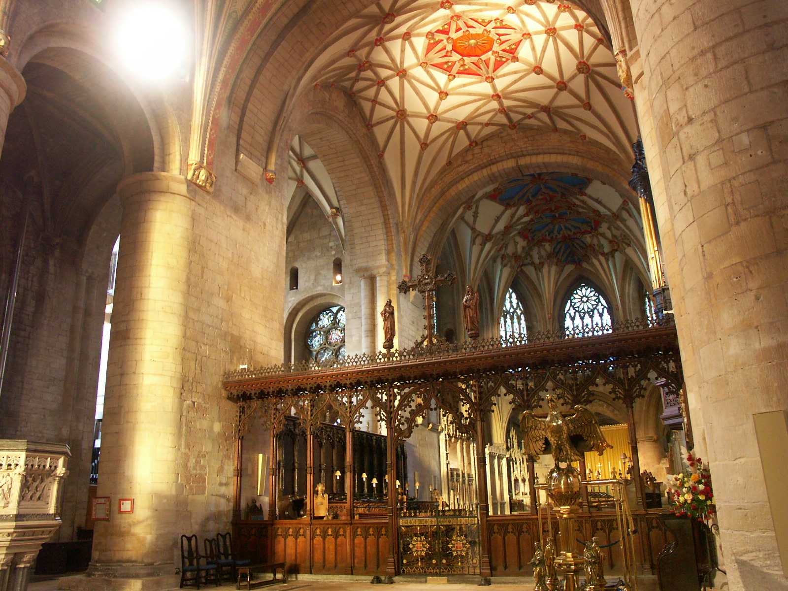 Tewkesbury Abbey, England